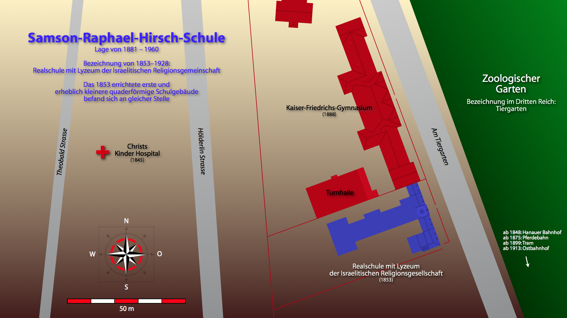 Location graphics of Samson-Raphael-Hirsch-Schule respectively Realschule with Lyzeum of Israelitische Religionsgesellschaft in Frankfurt am Main, Hesse, Germany. Founded as Realschule with Lyzeum of Israelitische Religionsgesellschaft in 1853, the new and much larger school building represented in this graphics was inaugurated in 1881. Seven years later Kaiser-Friedrichs-Gymnasium was erected in direct neighbourship. The functional and describing name of Realschule with Lyzeum of Israelitische Religionsgesellschaft was changed during 75th anniversary in 1928 to honour its founder.